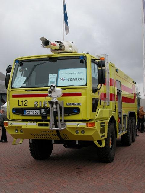 Fire engine from Jyväskylä airport, Finland.